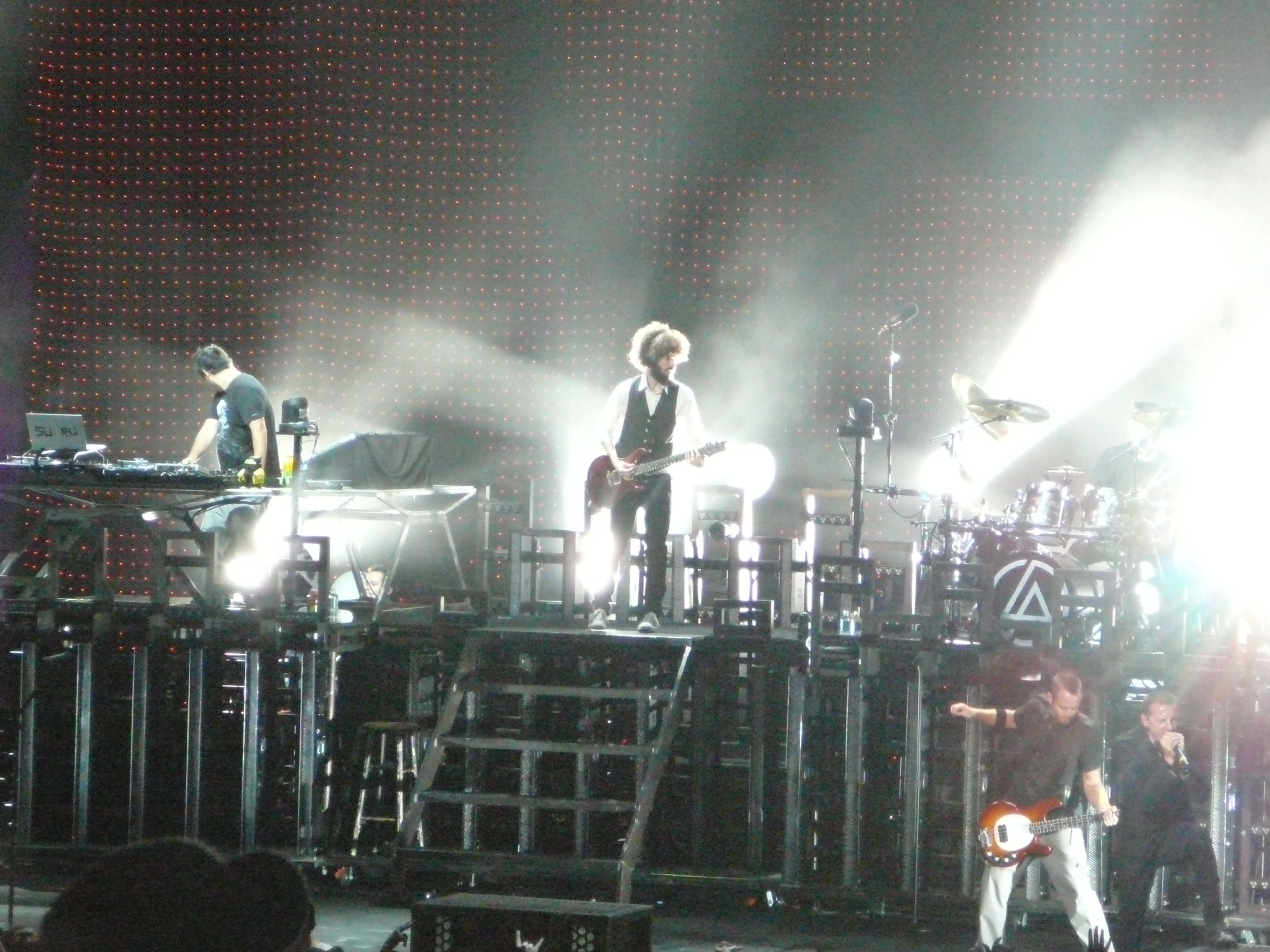 A photo of Linkin Park performing in the Projekt Revolution 2007 Tour at Mansfield, Massachusetts